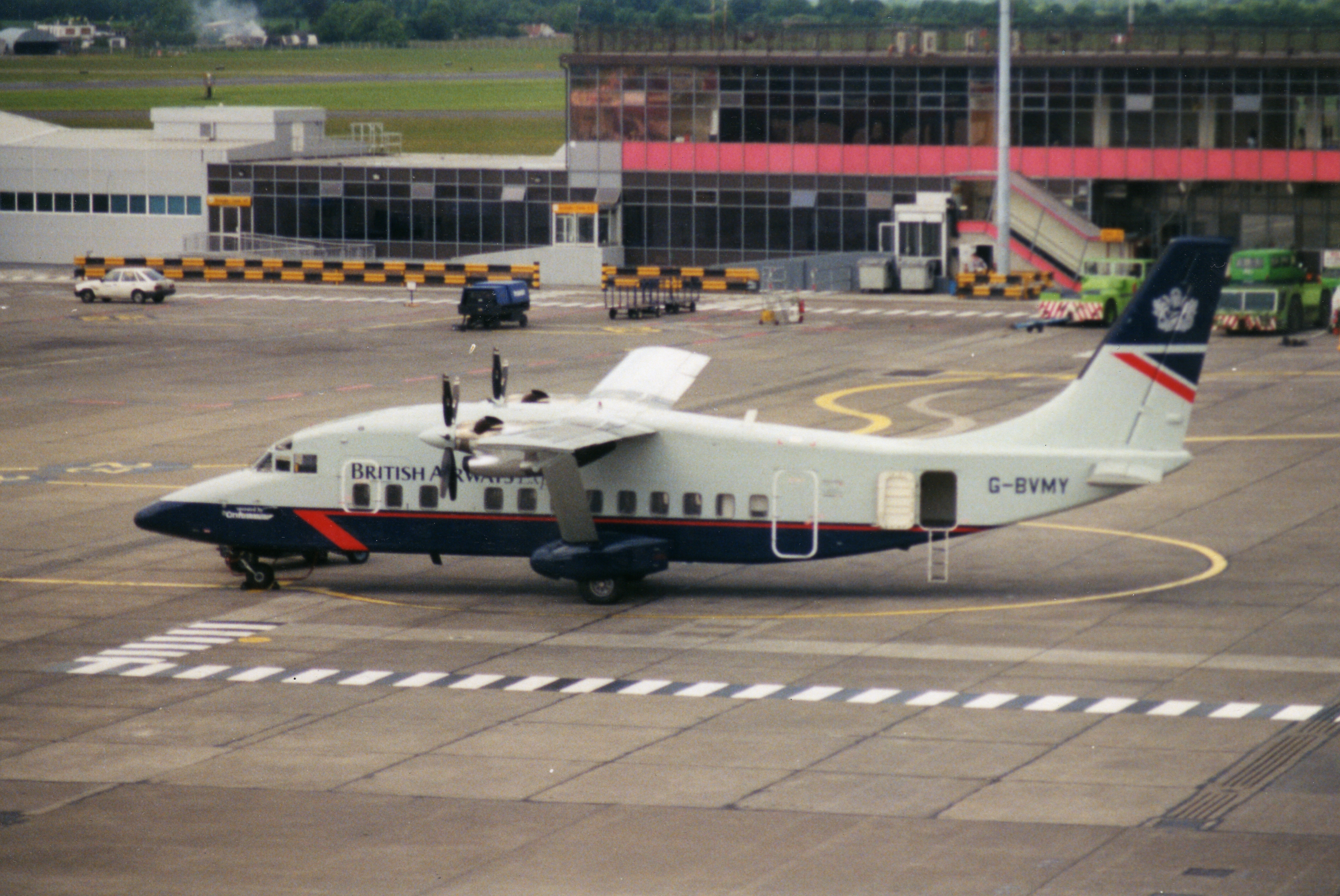 British Airways Express (G-BVMY) Shorts 360 aircraft, Dublin Airport, Dublin, Republic of Ireland, June 1995